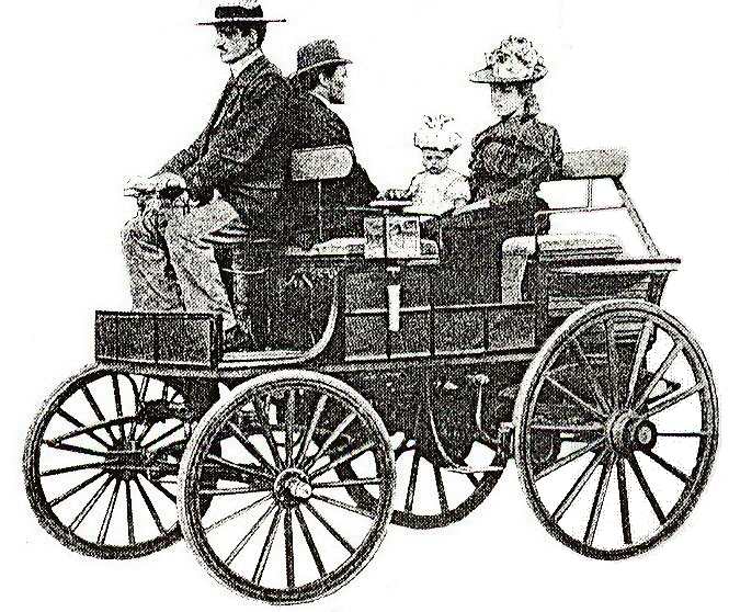 Kühlstein electric motorcar at the Berlin Motor Show, Hotel Bristol, September 1897. Kühlstein was one of only four exhibitors (the others were Daimler, Benz and Lutzmann).